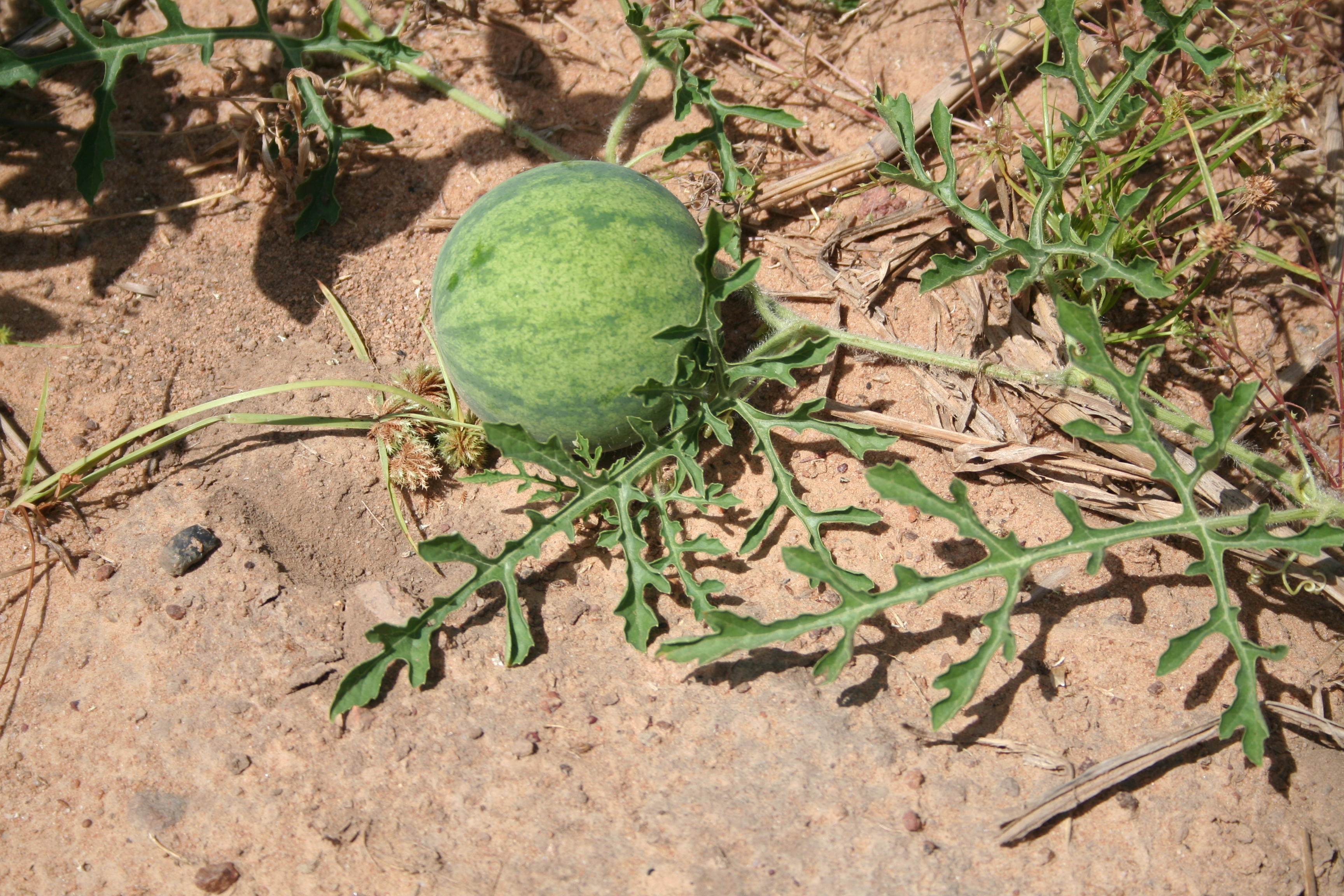 Citrullus colocynthis in a field in Tambarga, SE Burkina Faso